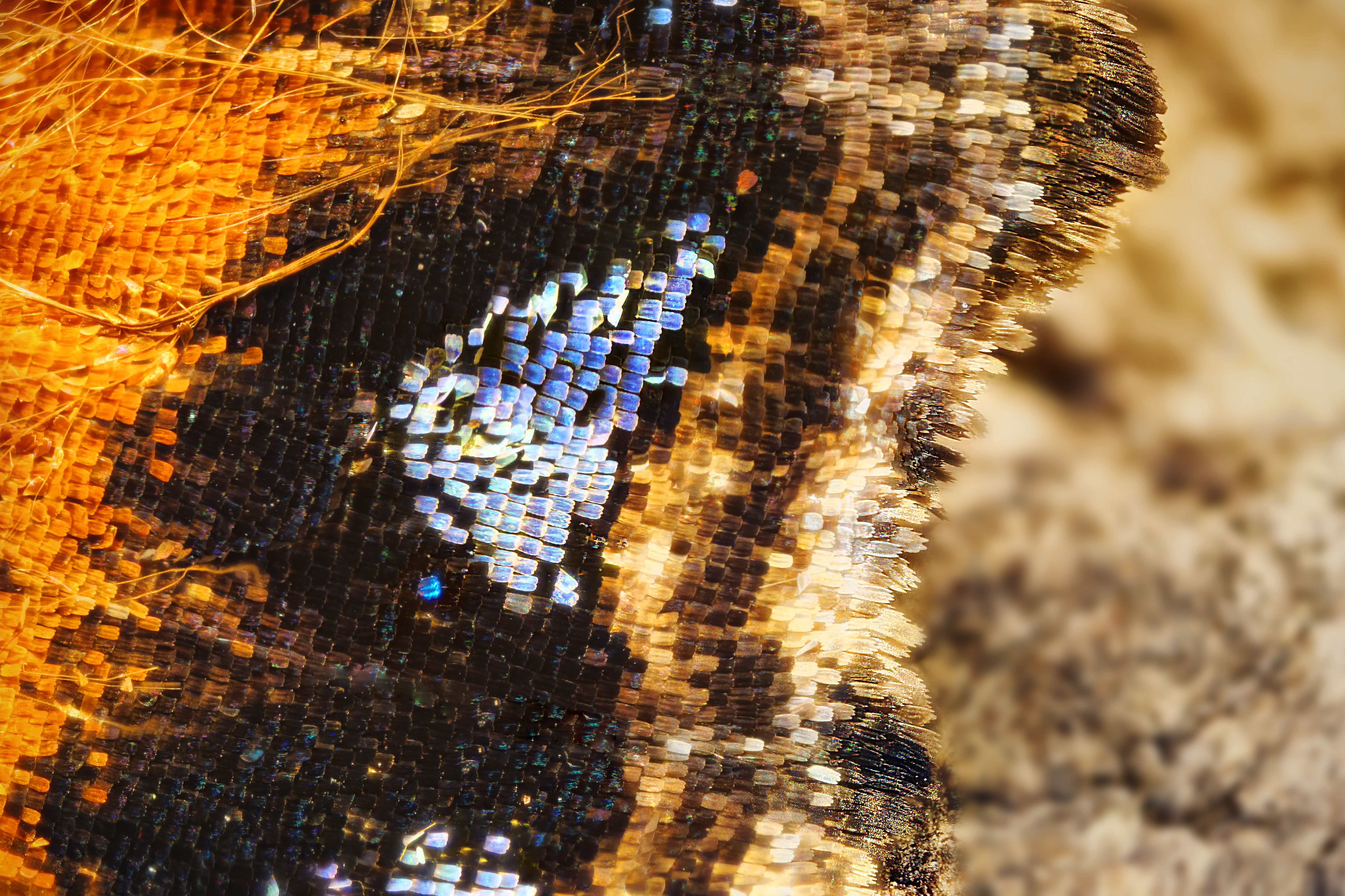 Dying butterflies Rain down upon my driveway With the autumn leaves. It's a shame to waste a dead butterfly, and as they tend to keep nice and still, a focus stacking opportunity. Small Tortoiseshell - Aglais urticae. Sony ILCE-6000 Canon MP-E 65mm (5x) F2.8 G SSM f5.6 1/5 ISO 100 23 image stack in Zerene, DMAP & PMAX. A new career awaits, Haiku writer - how exciting! Shame I'm rubbish at it.